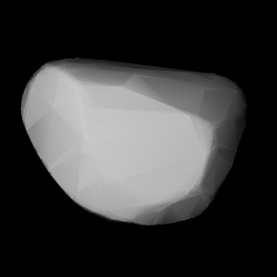 3D convex shape model of 1841 Masaryk, computed using light curve inversion techniques. J. Hanuš, J. Ďurech, M. Brož, B. D. Warner (June 2011). "A study of asteroid pole-latitude distribution based on an extended set of shape models derived by the lightcurve inversion method". Astronomy and Astrophysics 530: A134. ISSN 0004-6361. arXiv